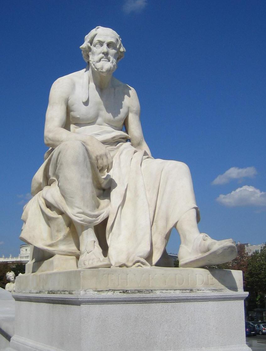 A statue of Thucydides in front of the Austrian Parliament Building